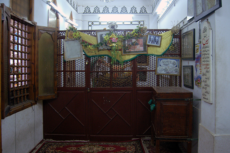 Inside the Galal el-Din el-Asyuti mosque, Asyut, Egypt